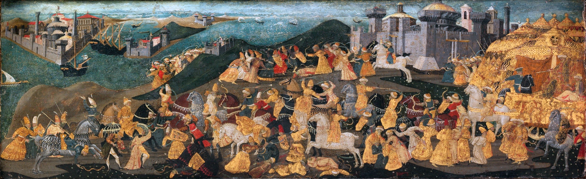 Front panel of Cassone featuring the conquest of Trebizond. Attributed to Apollonio di Giovanni di Tomaso